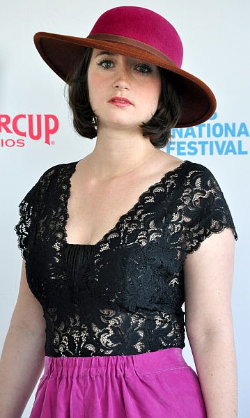 Actress Stine Fischer Christensen attends the 19th Annual Hamptons International Film Festival Chariman's Reception on October 15, 2011 at the home of Stuart Suna in East Hampton, New York. (Photo © Nick Stepowyj)